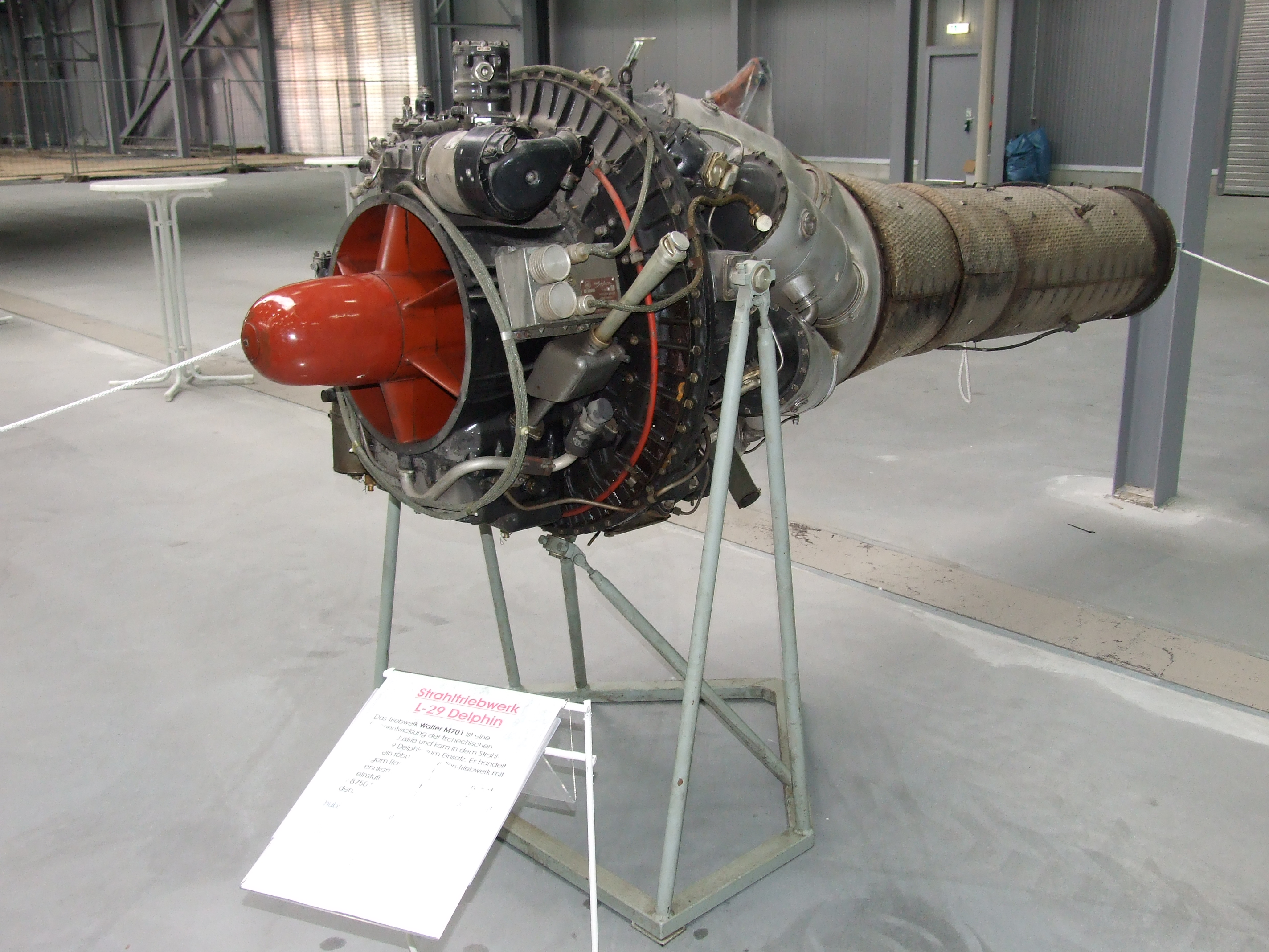 Walter M701 aircraft engine of L-29 Delphin